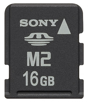 Image of a Memory Stick Micro and adaptor. Taken by myself.